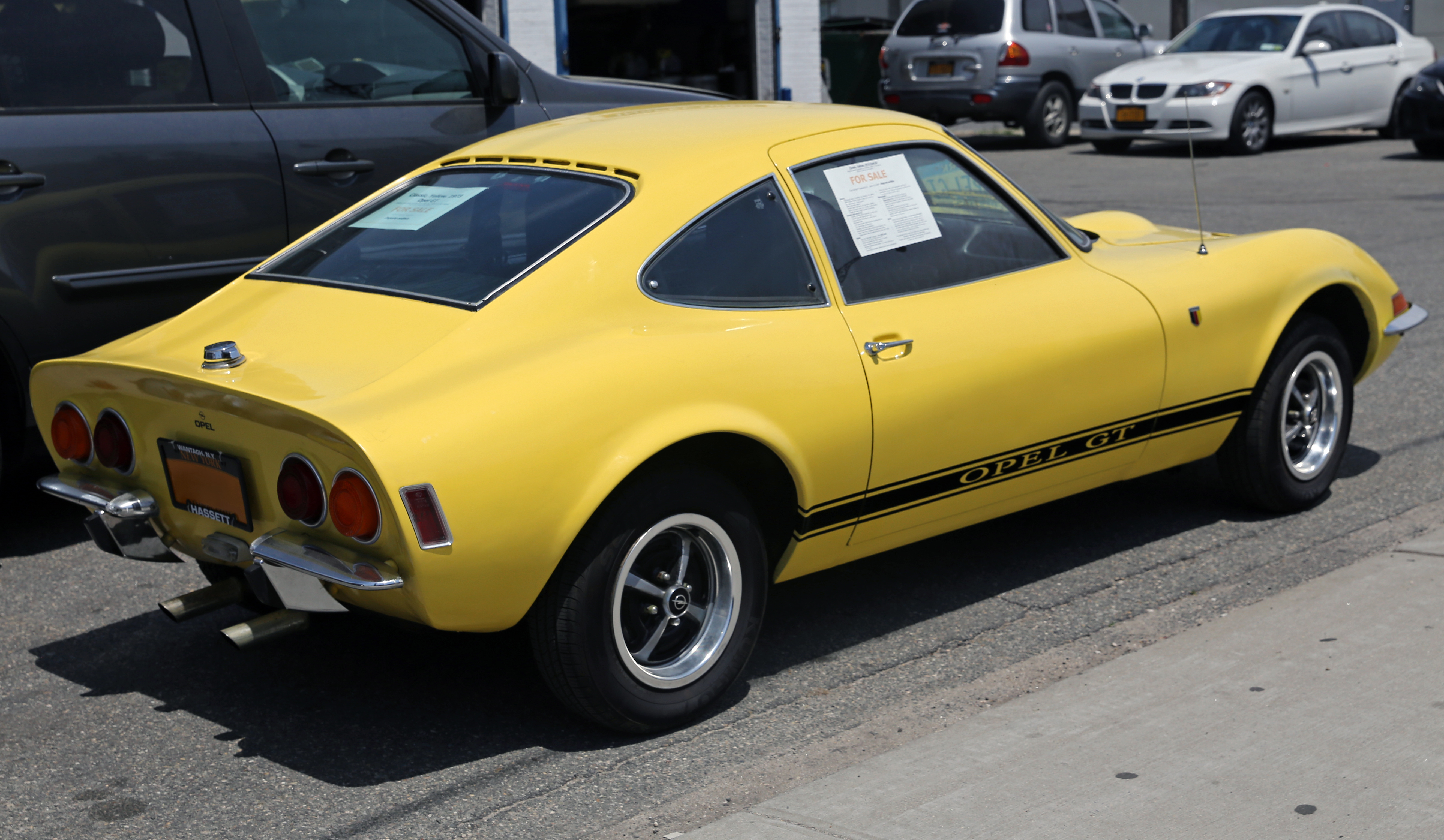 A 1973 Opel GT 1900 in mostly unrestored condition. 40,300 miles, repainted and some other running repairs but essentially in original condition. It seems to have been sold, haven't seen it in a while. The last time I saw an Opel GT was in 1993, so I was pleasantly surprised about this one.